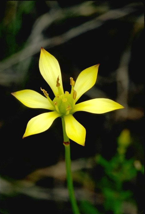 Harperocallis flava US Forest Service photo